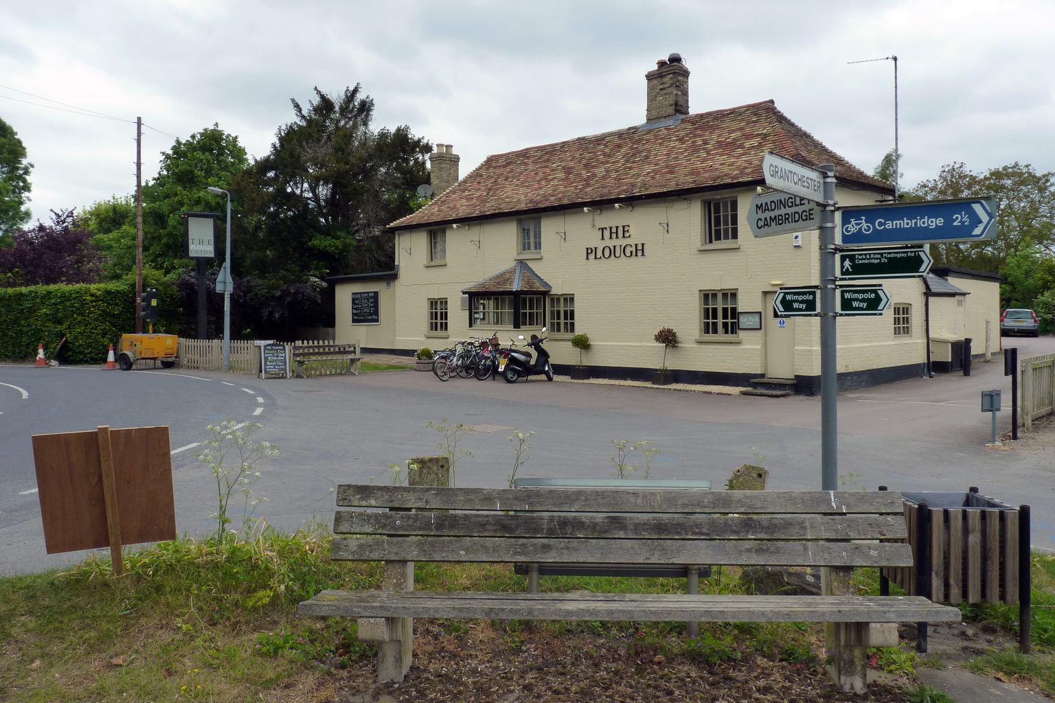 The Plough from the Coton village green.